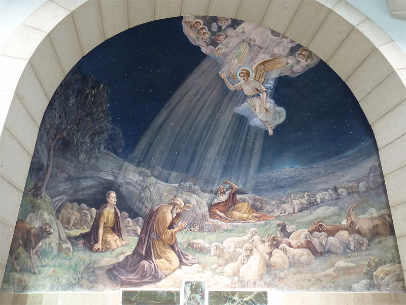 Church of the Shepherds Field, Beit Sahour, Palestine.